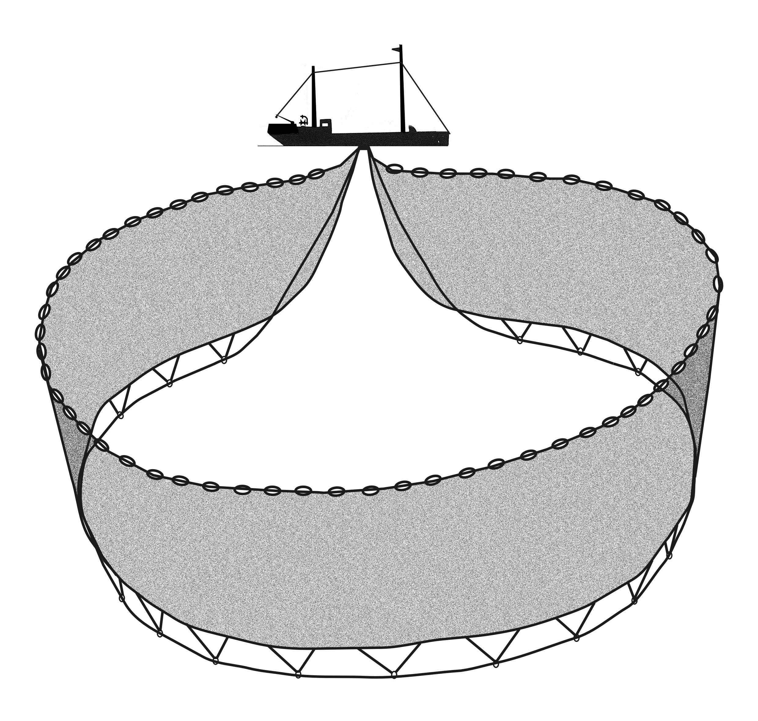 Purse sein